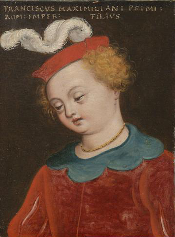 Franz von Habsburg (1481)